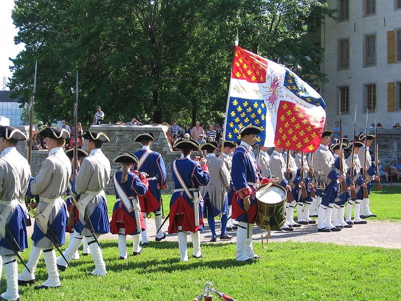 Compagnie Franche de la Marine